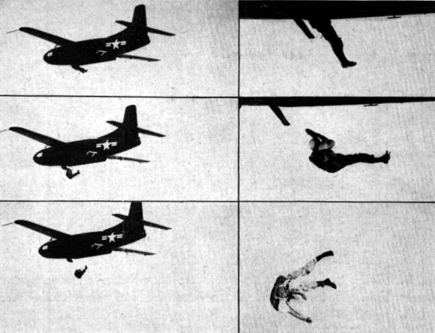 A U.S. Navy aviator bails out through the cockpit floor of a Douglas F3D-1 Skyknight at Naval Air Facility El Centro, California (USA). Like the F3D, the Douglas A3D/A-3 Skywarrior, which was originally designed as a high altitude strategic bomber, never received ejection seats during its service life from 1951 to 1991.